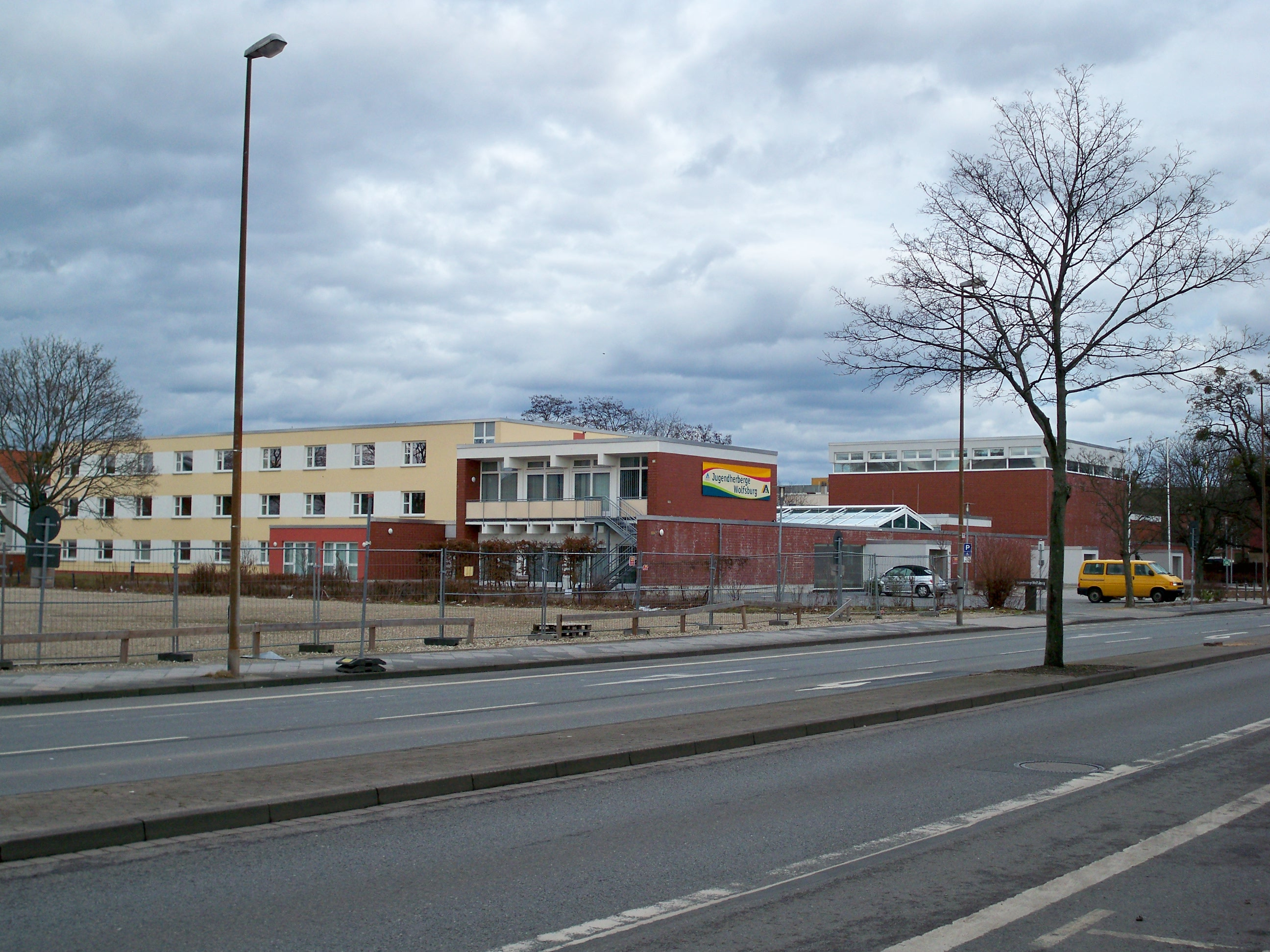 Wolfsburg, Lower Saxony, former church centre Arche, now youth hostel, with apartments